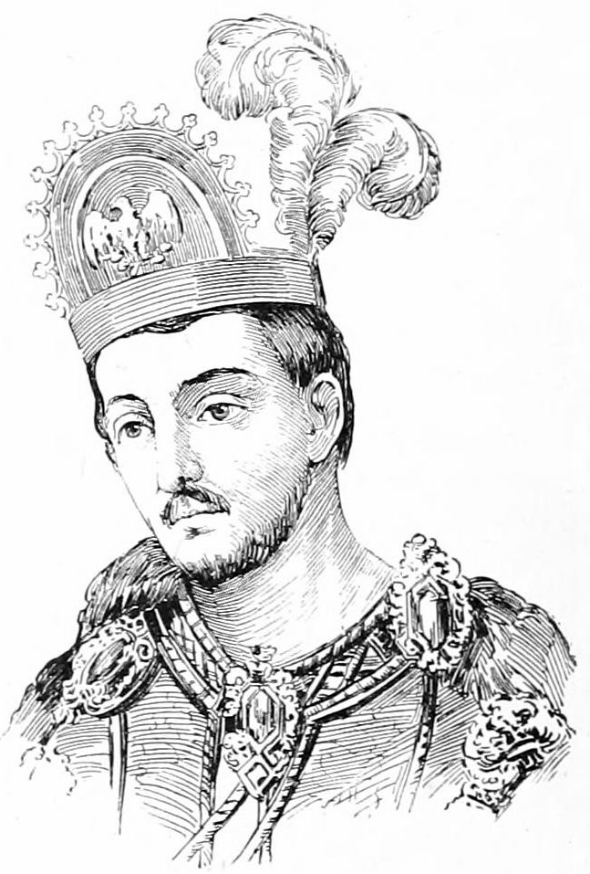 Portrait drawing of Montezuma II